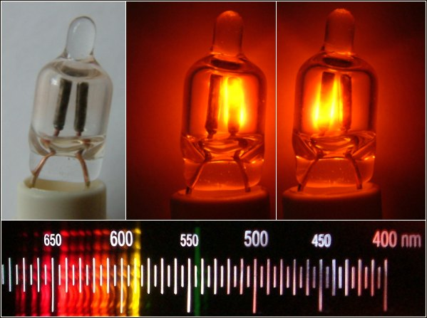 A small glow discharge lamp and its spectrum